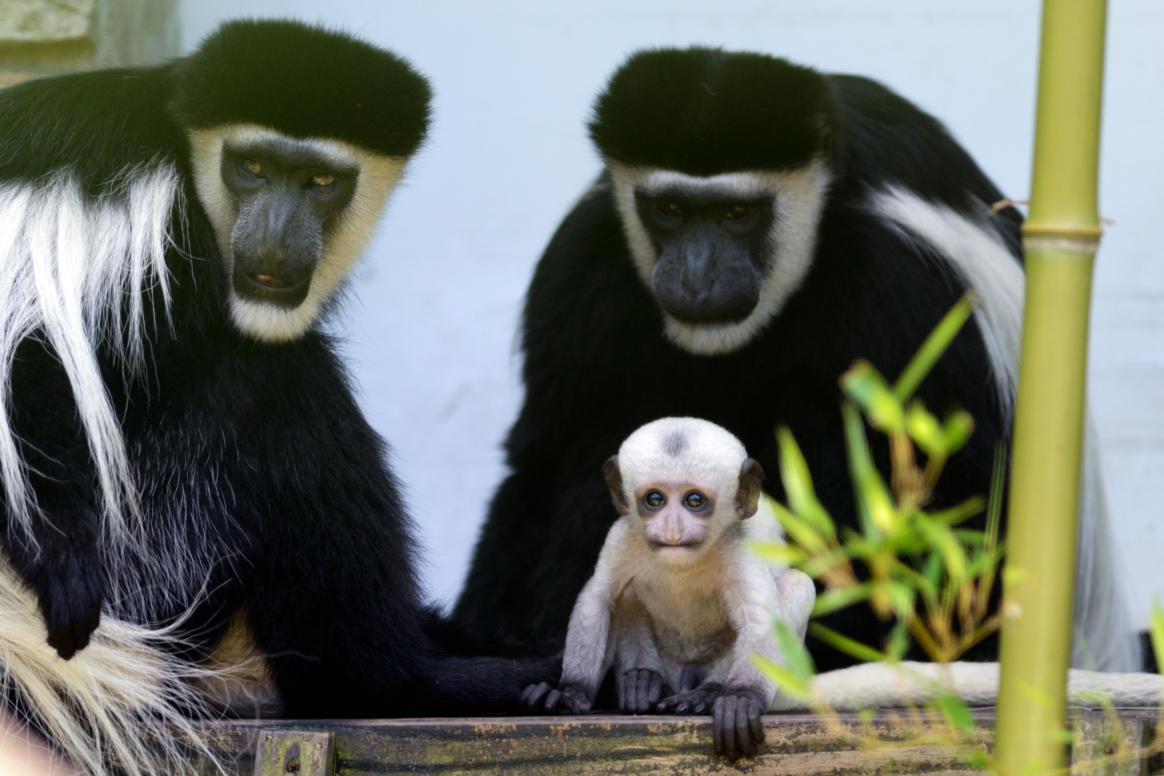 Baby Colobus Monkey